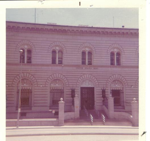 Denver Mint building, 1972.